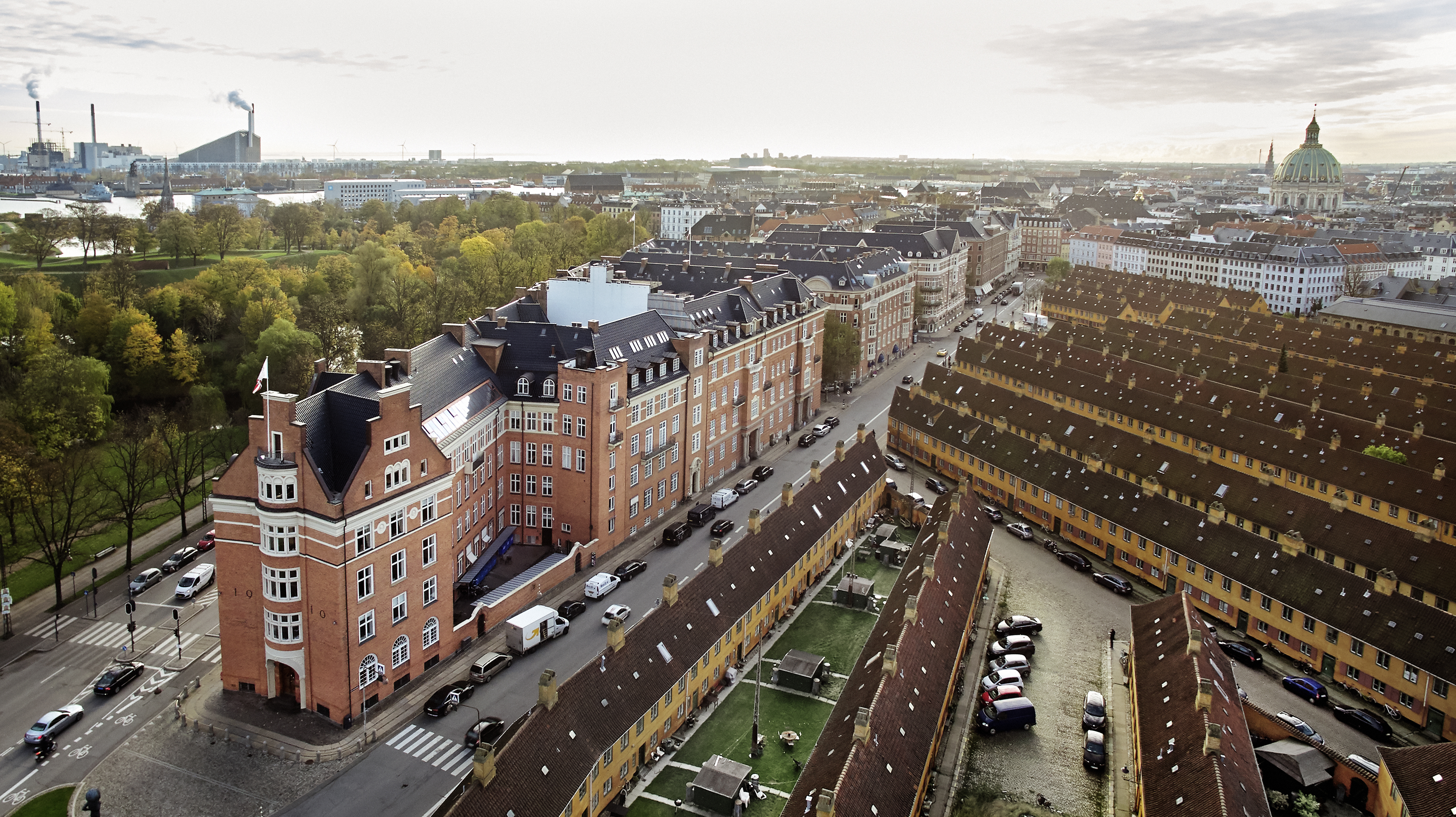 Netcompany's headquarters on Grønningen in Copenhagen.